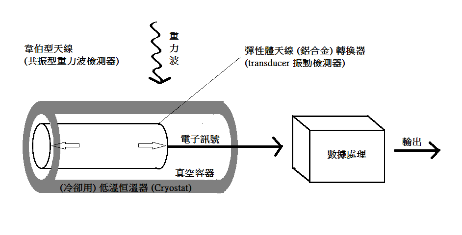 It is the structure of Weber Bar.